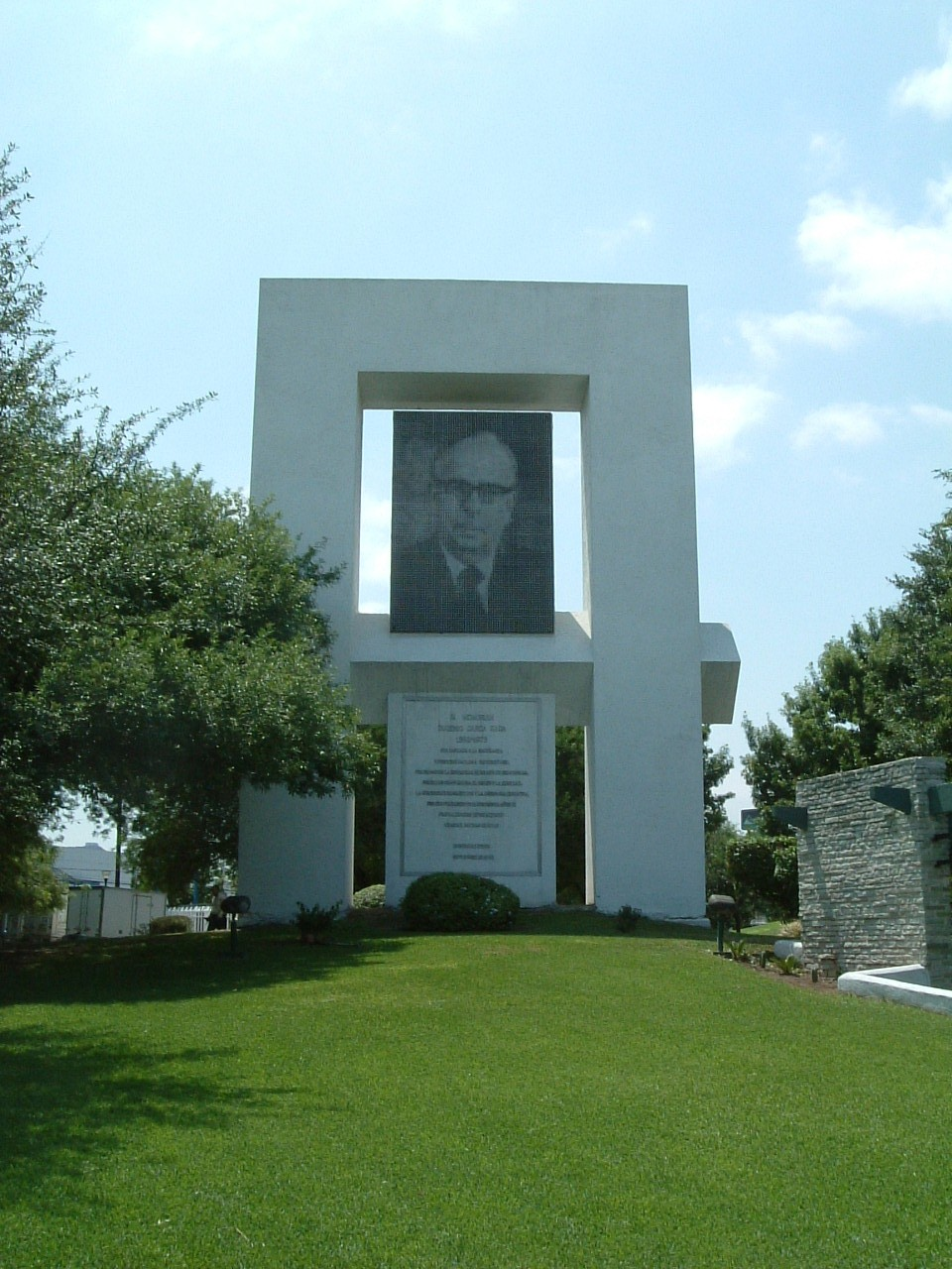 The Eugenio Garza Sada Memorial at the Monterrey Institute of Technology and Higher Education in Monterrey, Nuevo León, México.